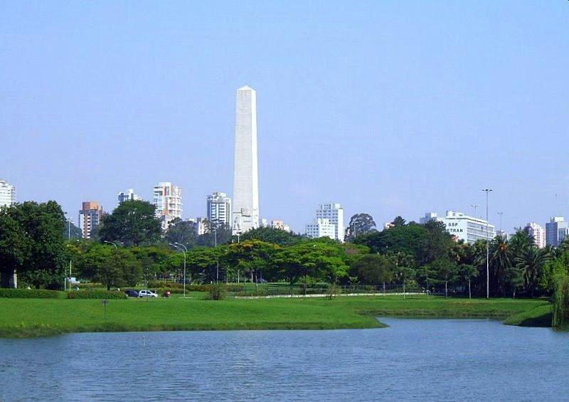 Obelisk of São Paulo (Constitutionalist Revolution of 1932) and Ibirapuera Park